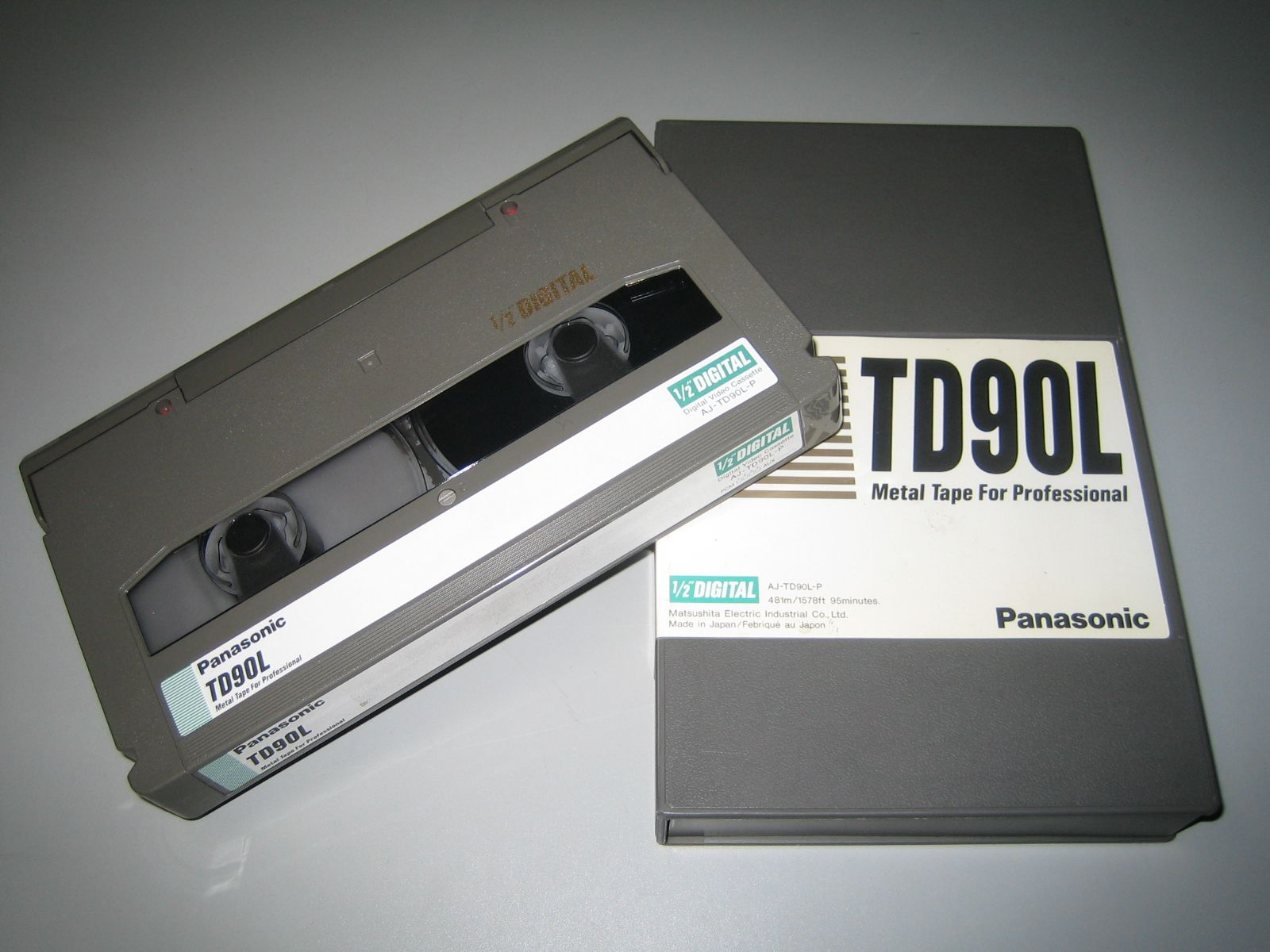 松下電器産業 D5-VTRカセットテープ AJ-TD90L（Mサイズ） Panasonic AJ-TD90L Casette tape for D-5 VTR Matsushita Electric Industrial Co., Ltd. Mangos撮影